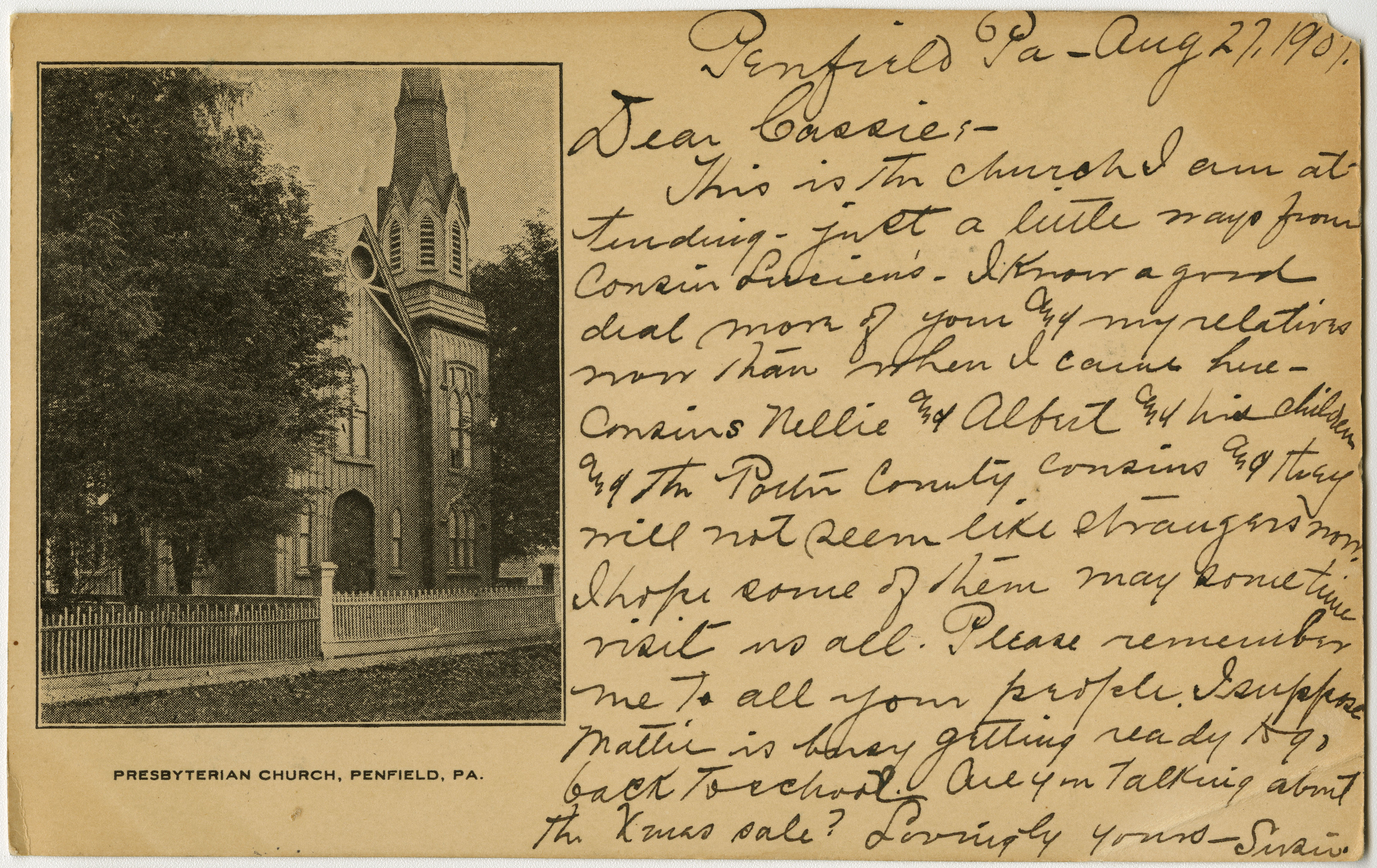 Presbyterian church in Penfield, Pennsylvania from a 1907 postcard. The church is still in Penfield, with its upper steeple gone, right next to the MinitMarket on Bennetts Valley Highway (PA 255) according to a 2007 photos at [1], but the Presbyterians have a newer church on the other side of town. Penfield is an unincorporated village in Huston Township, Clearfield County, Pennsylvania. From RG 428, Postcard Collection, Presbyterian Historical Society, Philadelphia, Pennsylvania.